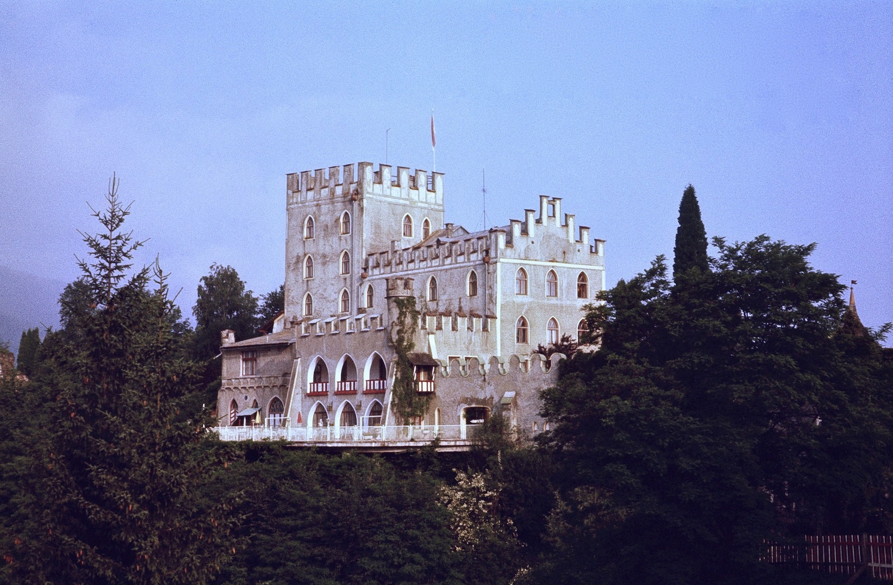 Schloss Itter (Itter Castle) viewed from the east-southeast in 1979.